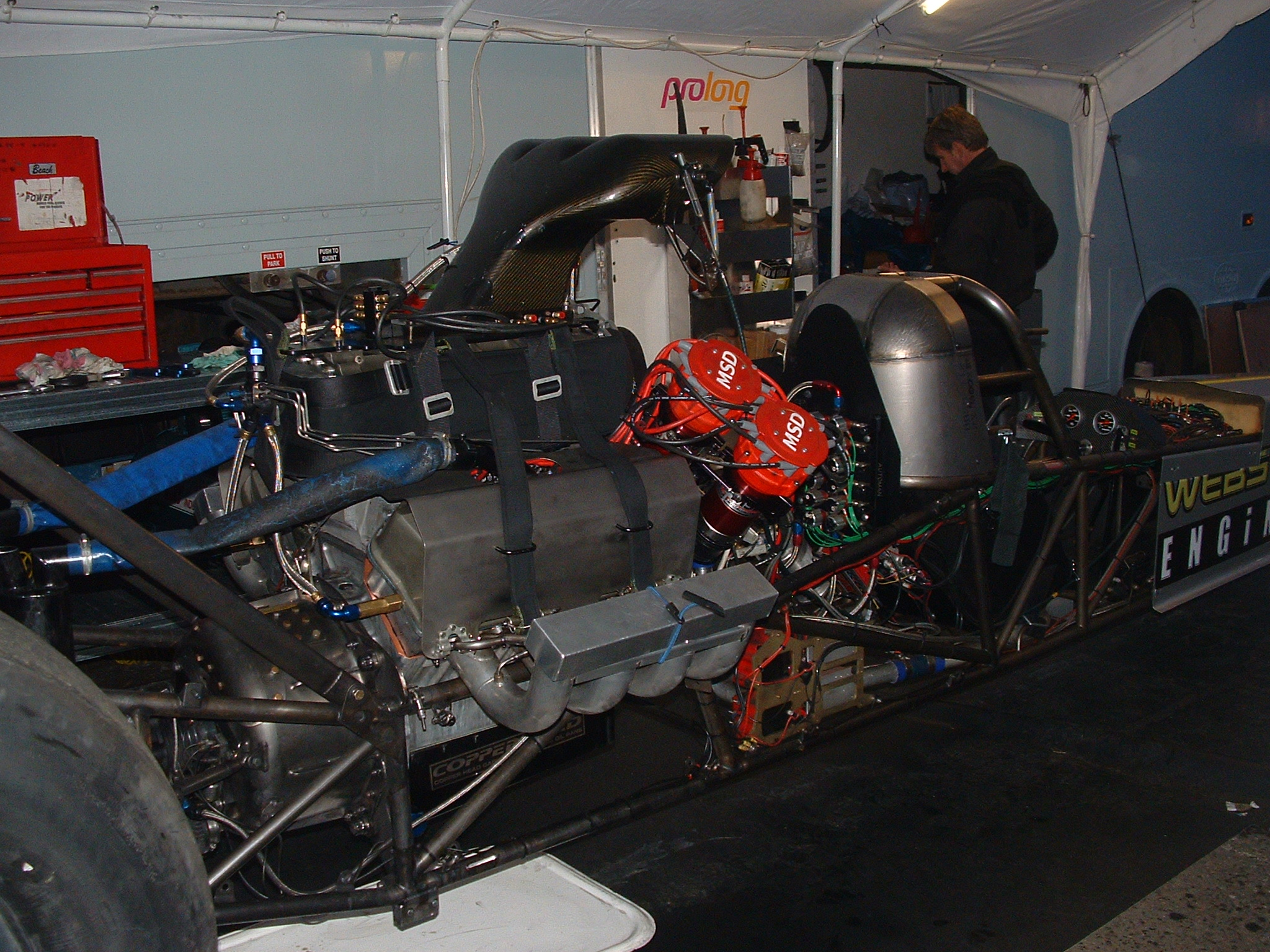 Engine of a top fuel drag racing car, European Finals 2005, at Santa Pod Raceway.